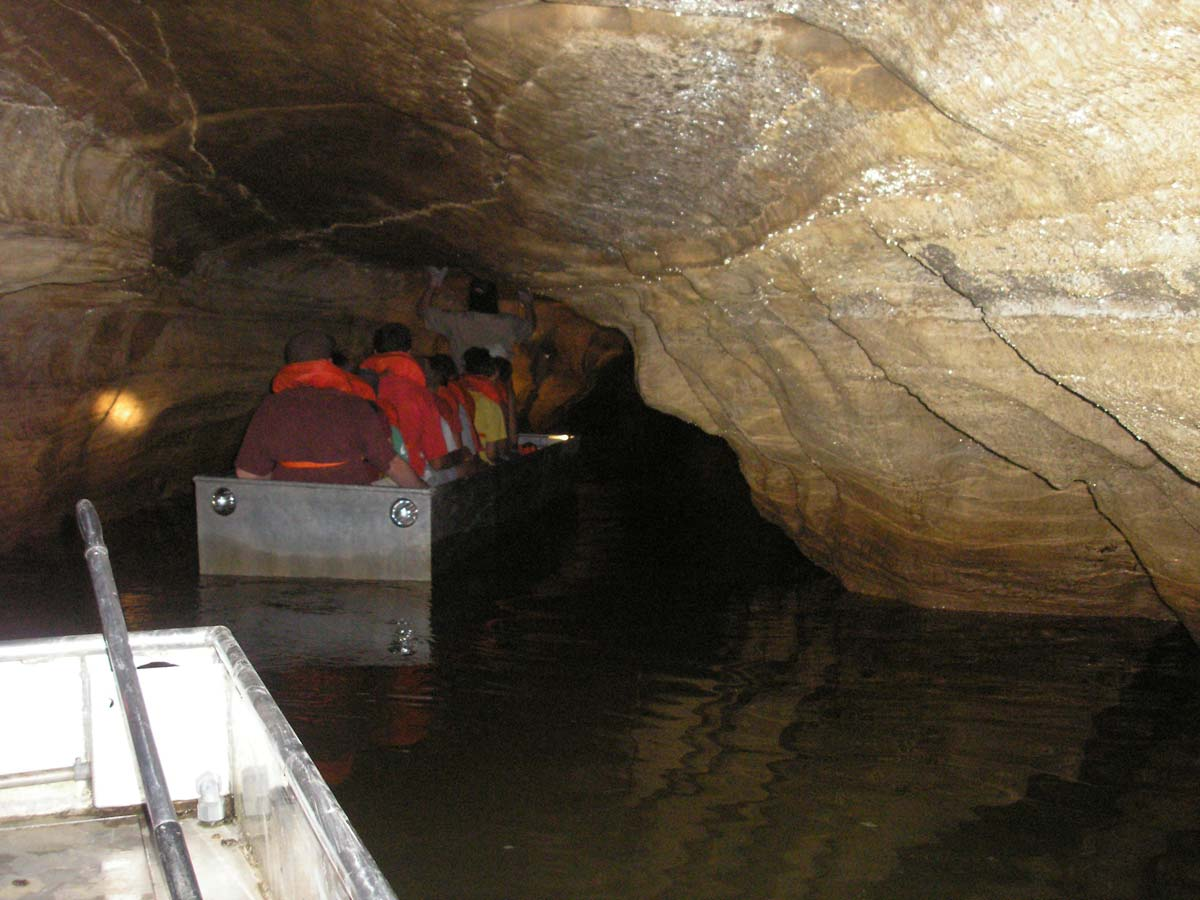 Boat tour of Twin Caves at Spring Mill State Park in Southern Indiana. Photographed by me on a June 2006 boat tour of Twin Caves at Spring Mill State Park, Mitchell, IN